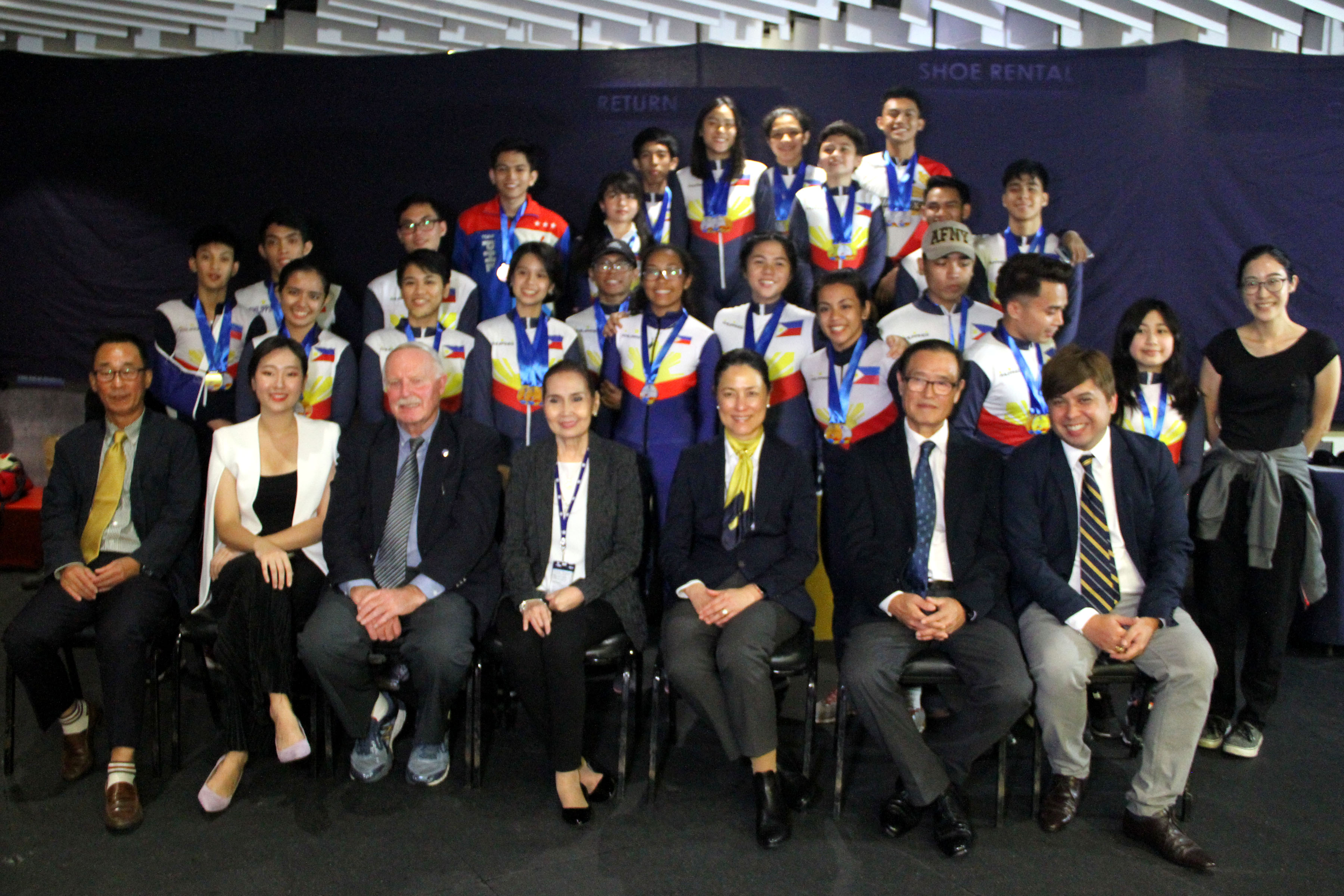 The winners of the 2018 Philippine Open Short Track Speed Skating Championships with Philippine Skating Union president Josie Veguillas (seated at center) after the awarding ceremony at the SM Megamall Ice Skating Rink in Mandaluyong City on Thursday. The PSU organized the tournament to select the members of the national team.